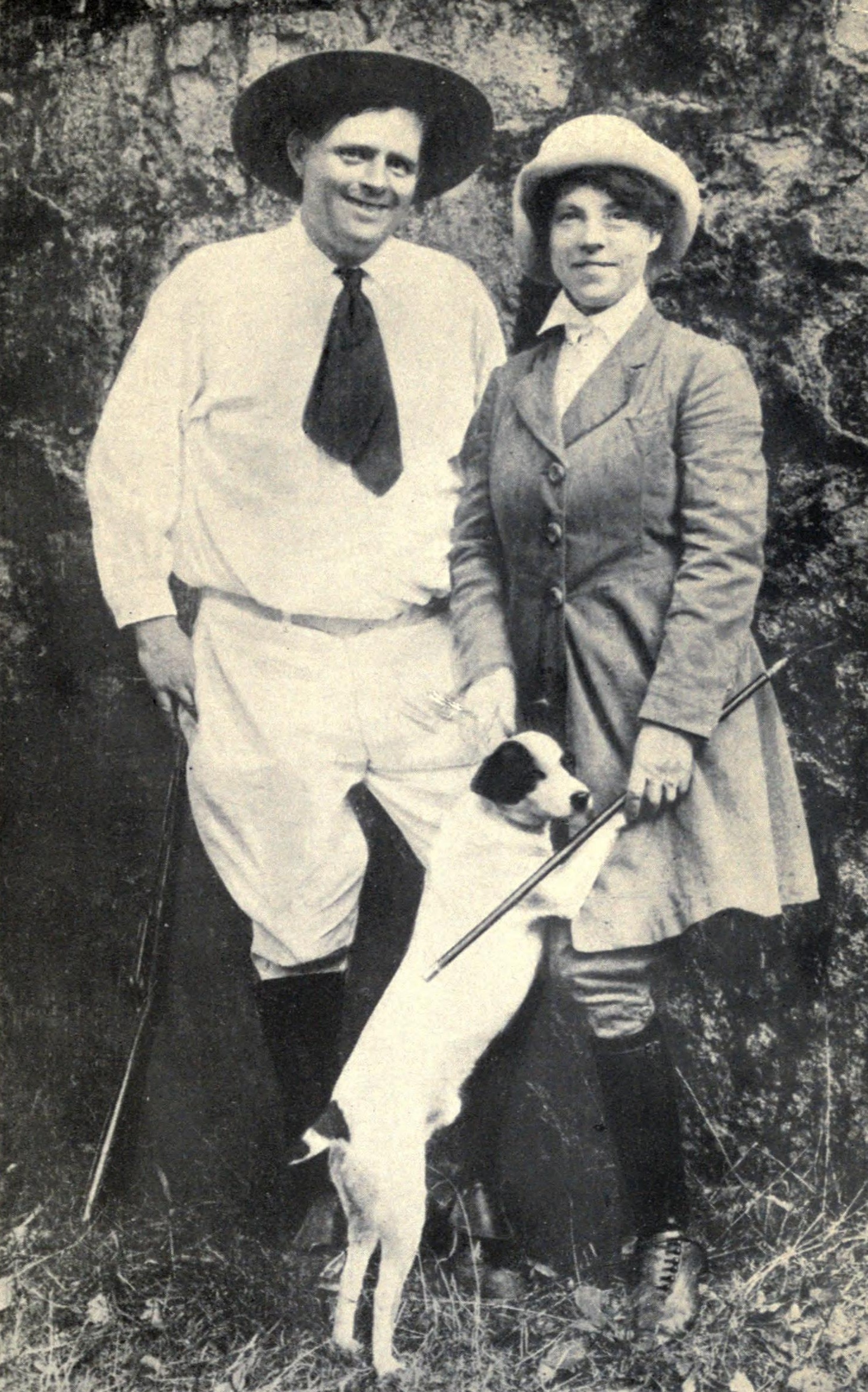 Jack and Charmian London 6 days before Jack's death 1916